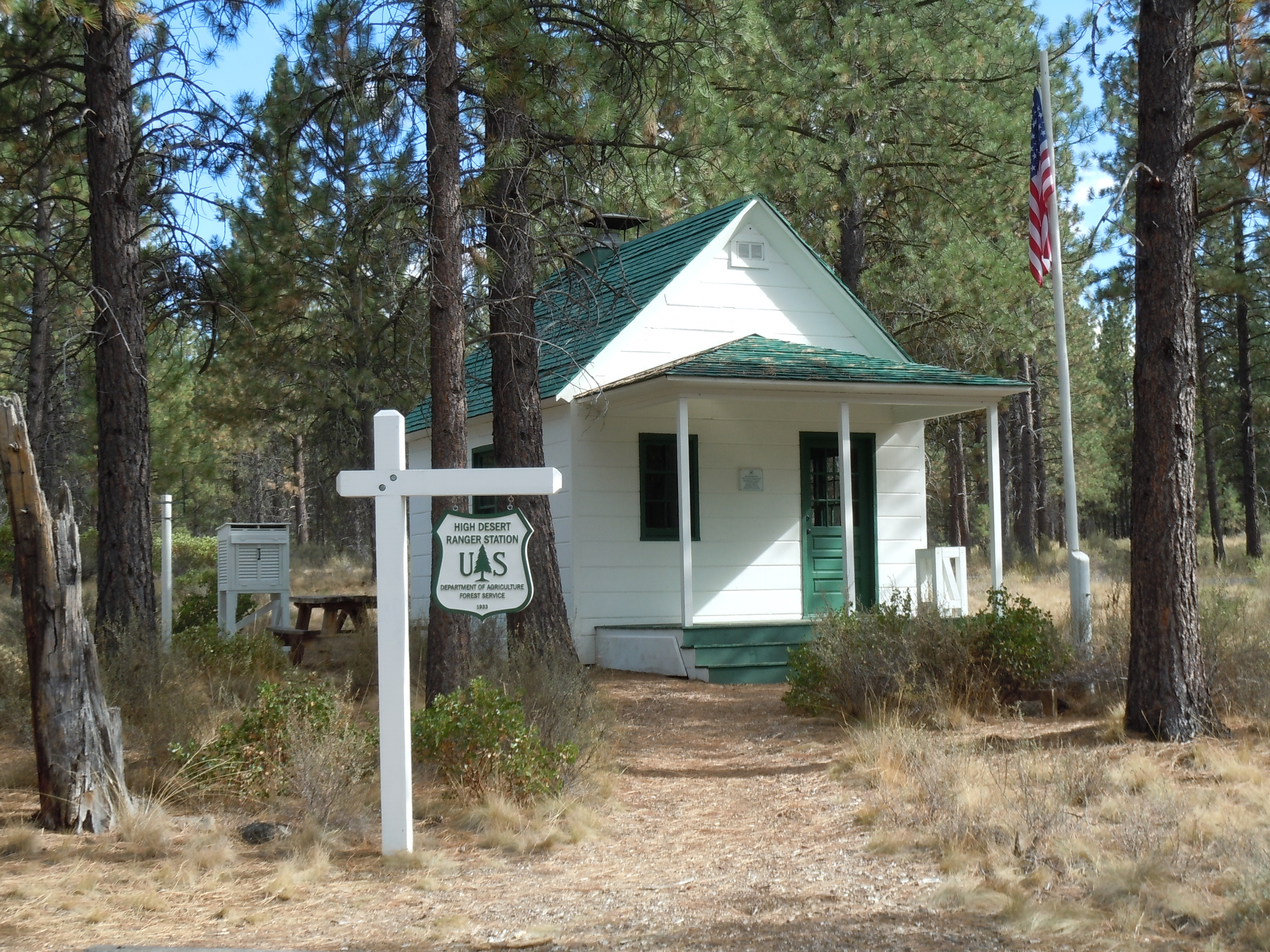 restored Forest Service guard station at the High Desert Museum near Bend, Oregon